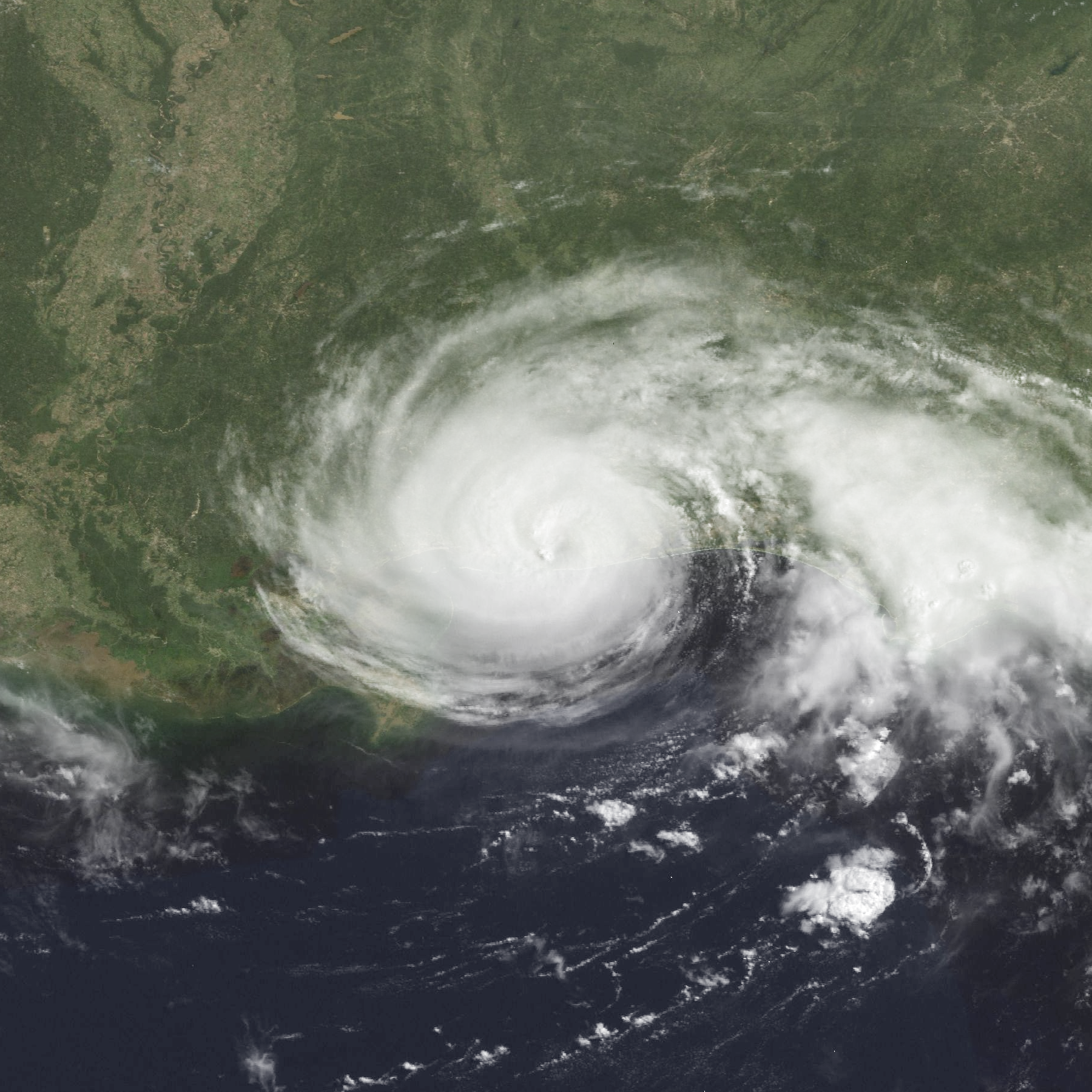 Hurricane Danny at peak intensity making landfall in Louisiana on July 19, 1997